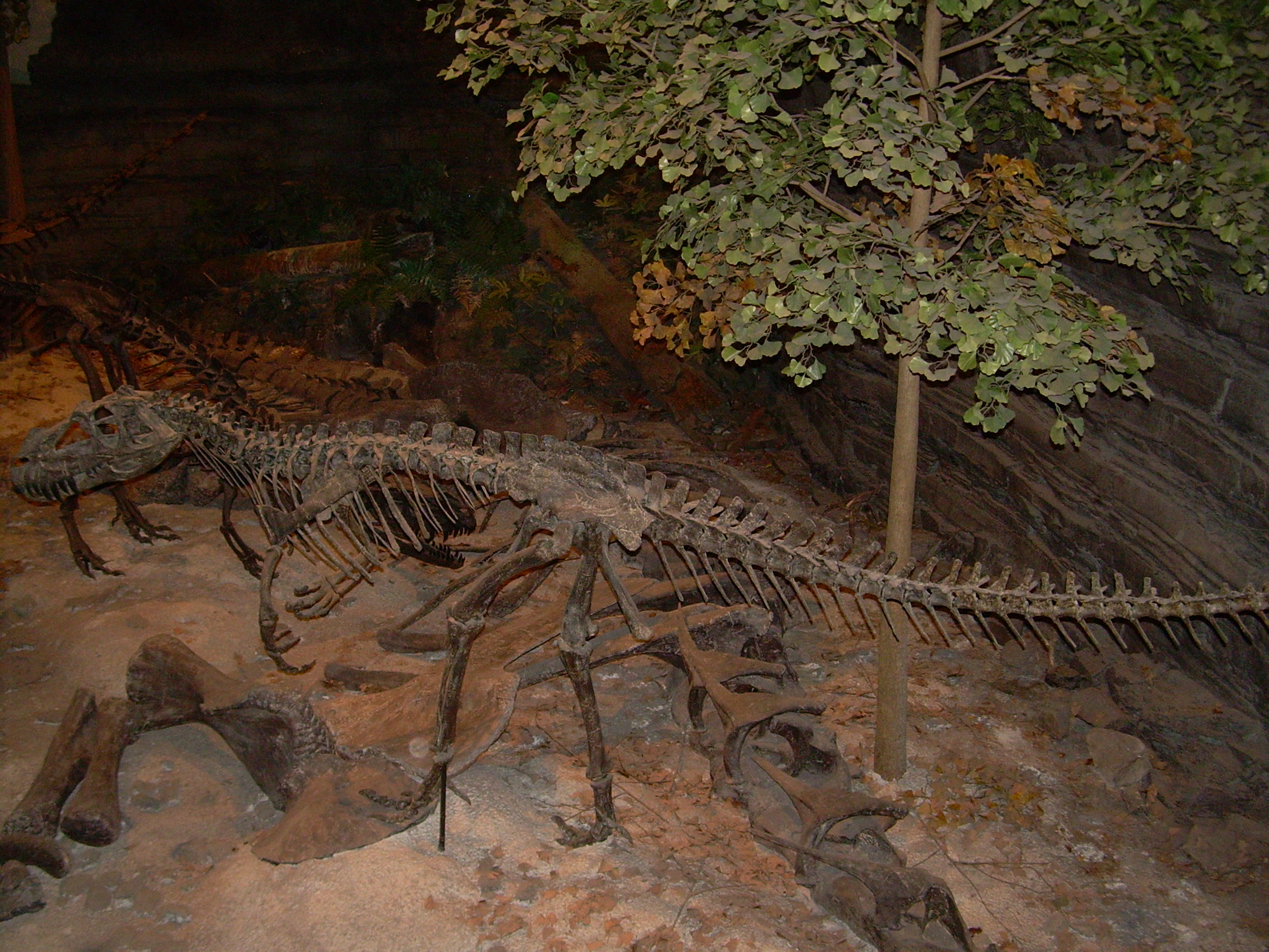 Photograph of a fossil cast of a Ceratosaurus skeleton taken at the North American Museum of Ancient Life.